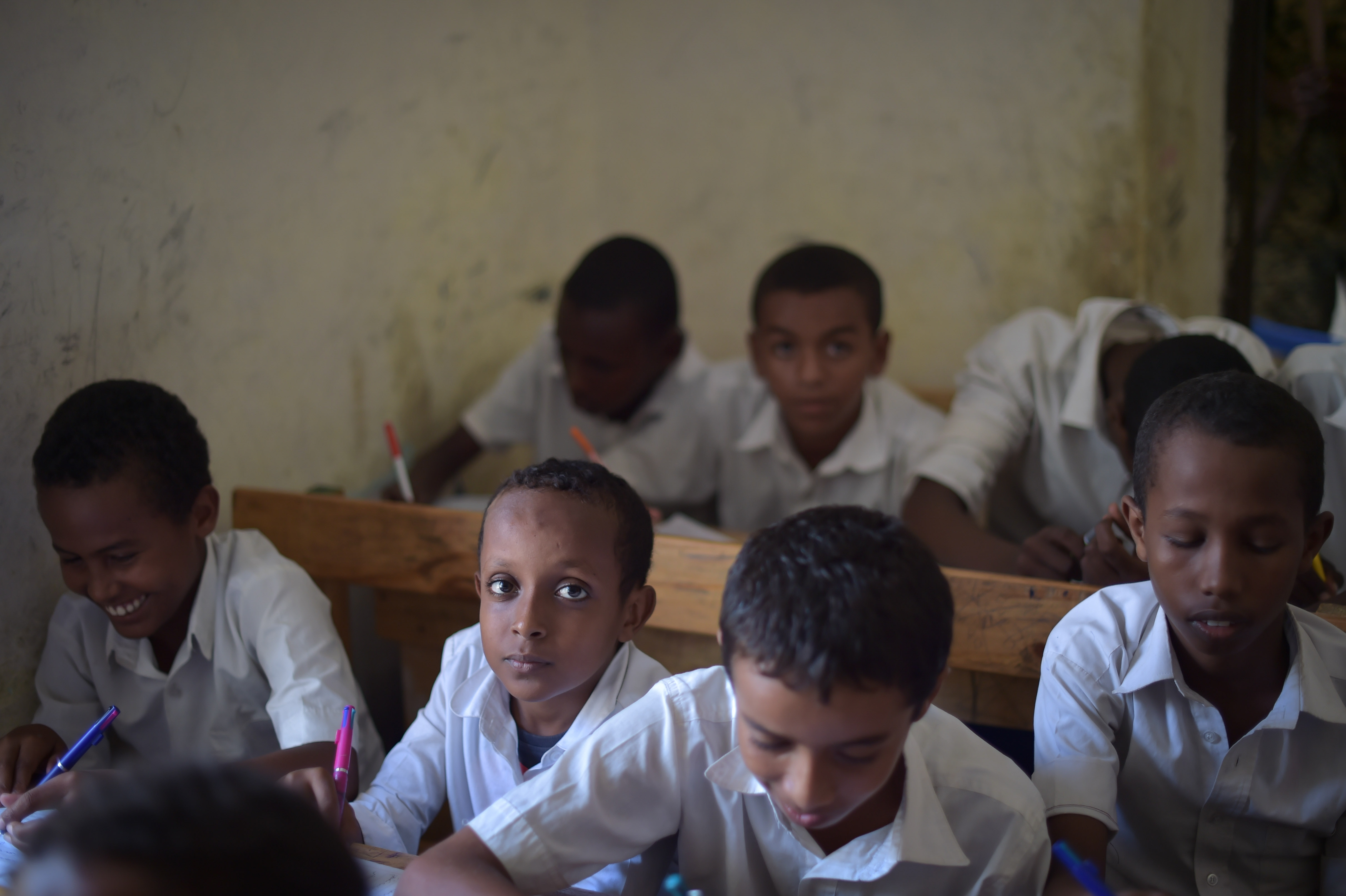 Children learn Arabic during a lesson at school in Barawe, Somalia, on August 23, 2016